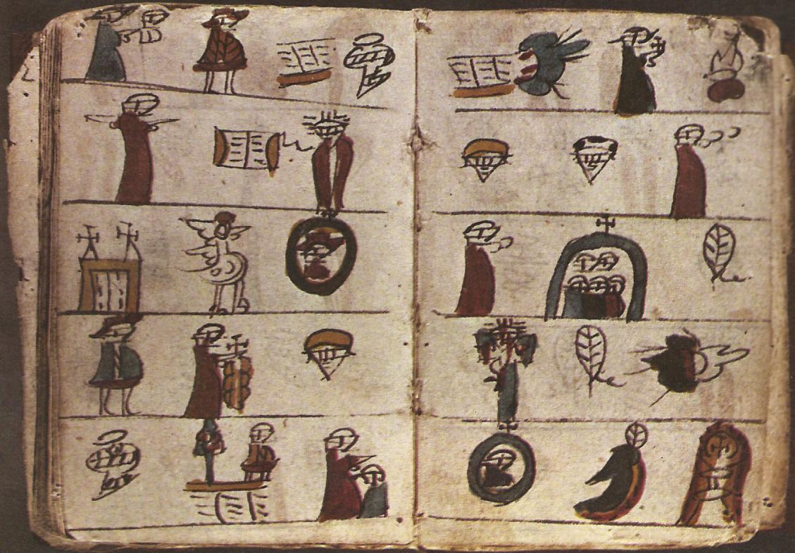 Testeriano (pictographic catechism) made for Mexican natives by Pedro de Gante